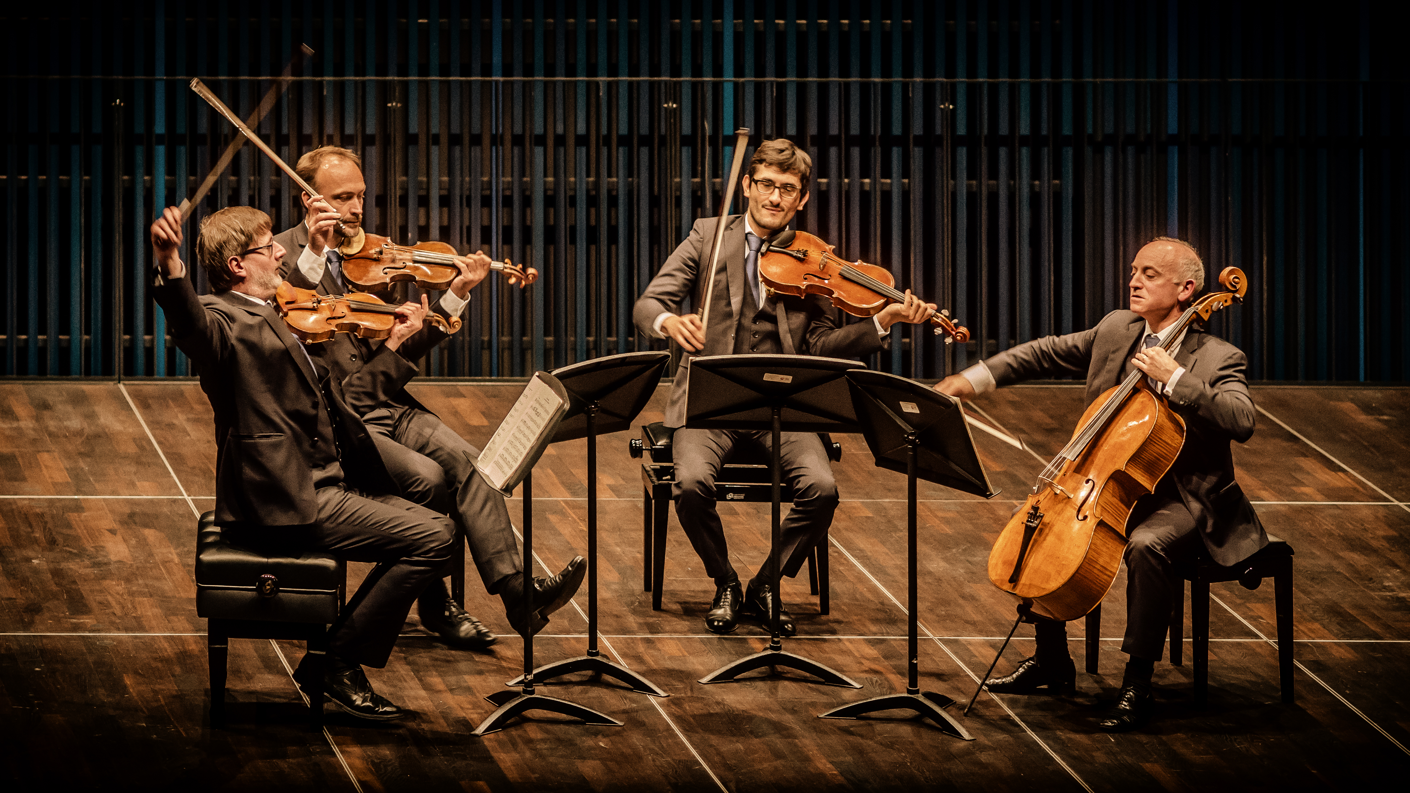 Strawinsky Saal, Donauhallen at Donaueschingen, Germany